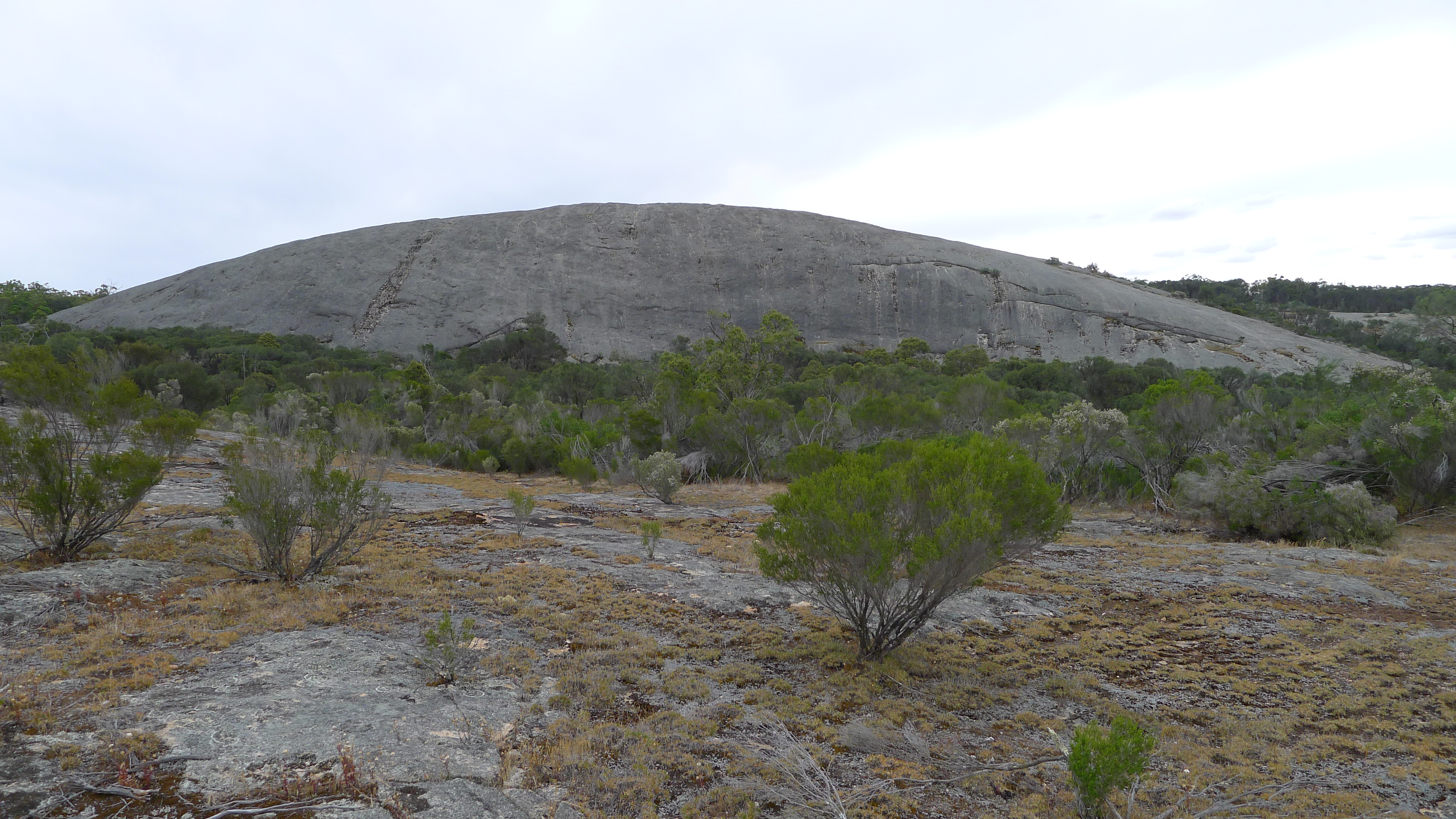 The graceful shape of Boyagin Rock, a significant place in the landscape. Boyagin Nature Reserve, Western Australia, November 2011.